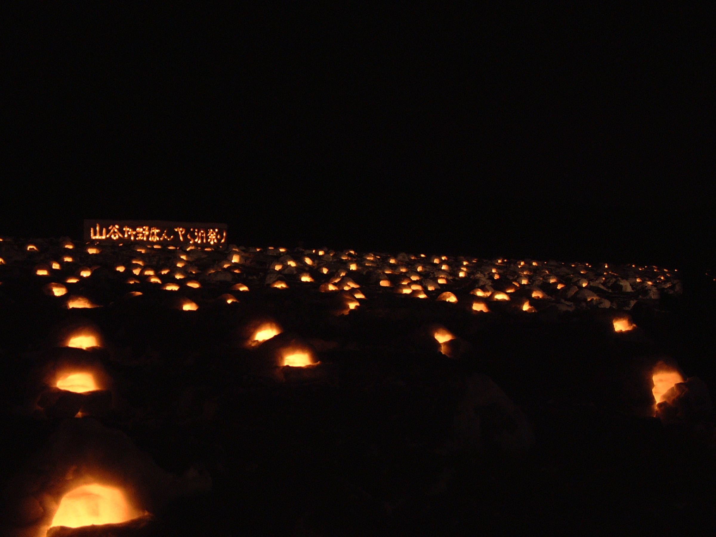 Appearance of "Honyaradou Matsuri" held in Ojiya City in the middle of February every year. It's made in the size of the bucket because of sightseeing in recent years though "Honyaradou" is big originally what "Kamakura" can be indicated, and the person enter. The snowfield is fantastically colored to the inside with a small wax candle.